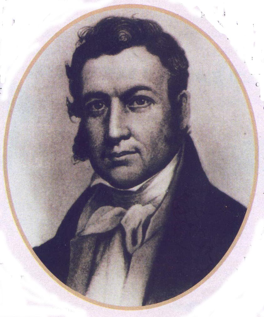 Engraving of Henry Eckford (shipbuilder).